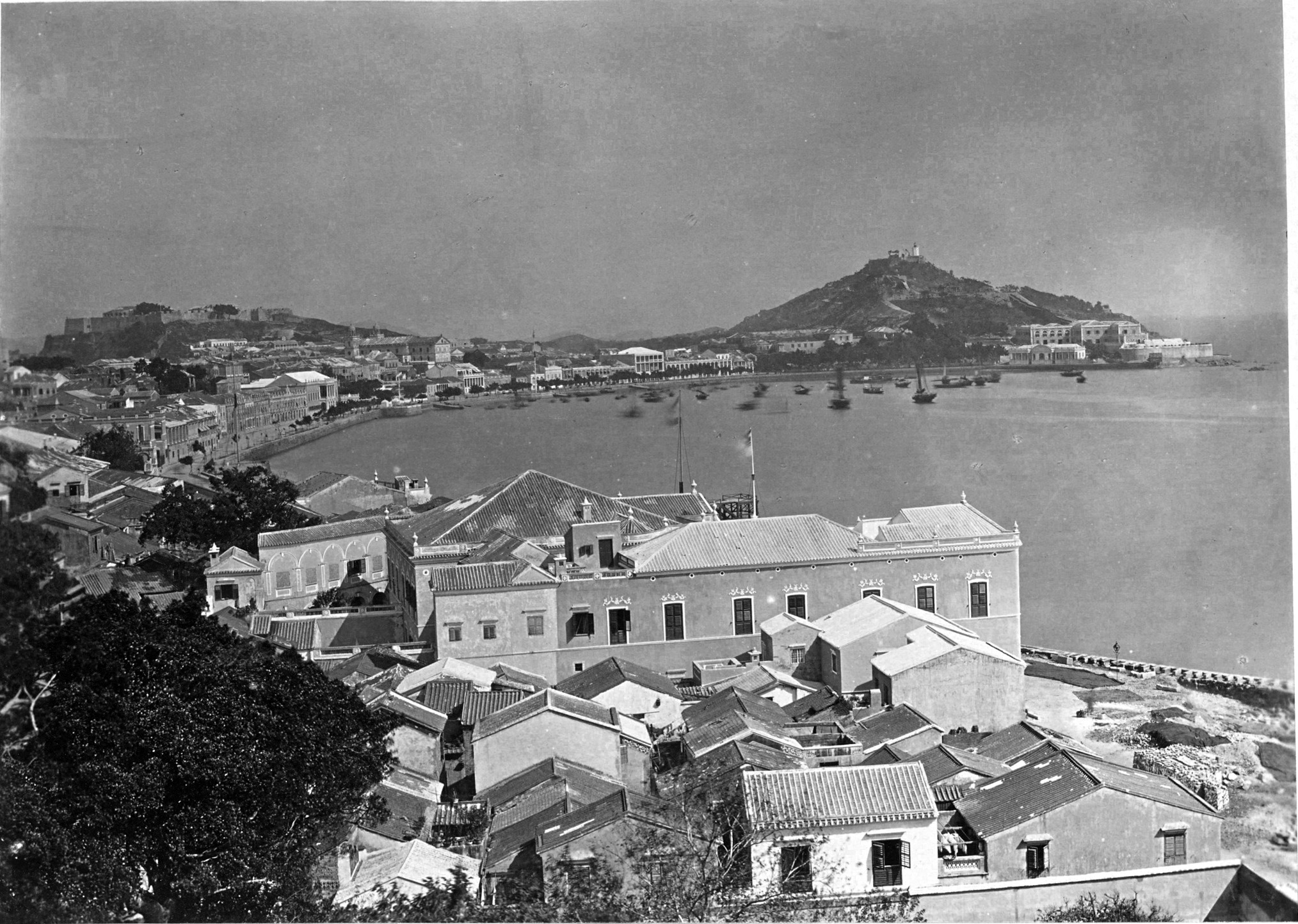 Photograph in From Afong, Photographer.